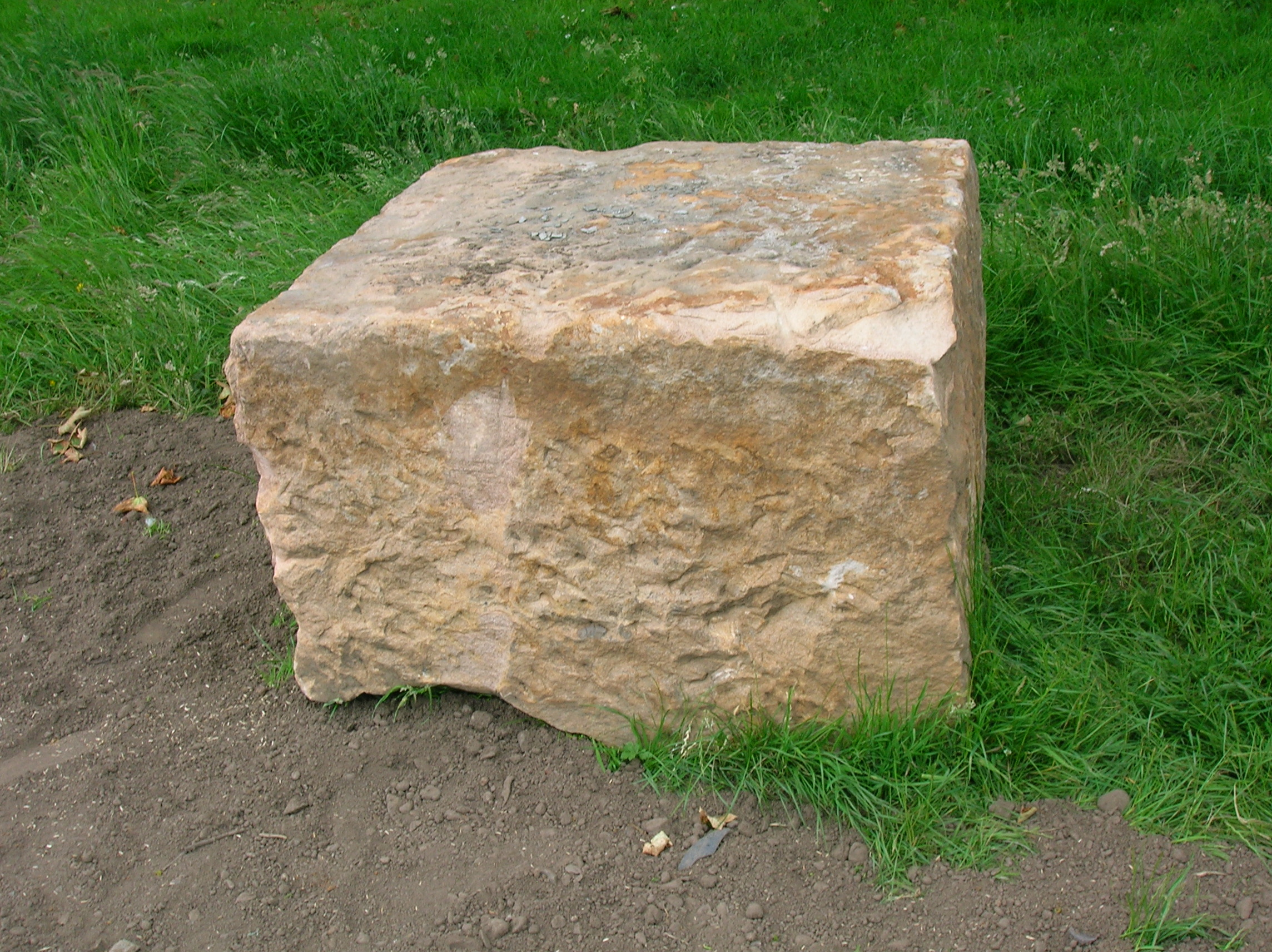 A Stone Mason's bench as used on the 1840s construction of the Eglinton Tournament Bridge, Irvine, North Ayrshire, Scotland.